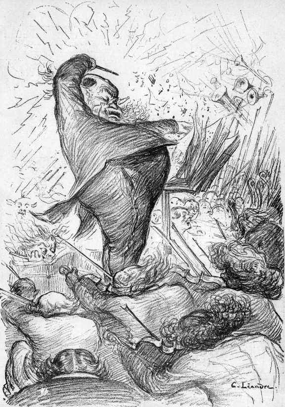 French conductor Charles Lamoureux (1834-1899). "At the Champs-Élysées concert. M. Lamoureux letting out a fortissimo." Drawing by Charles Léandre (1862-1934) published in Le Rire.